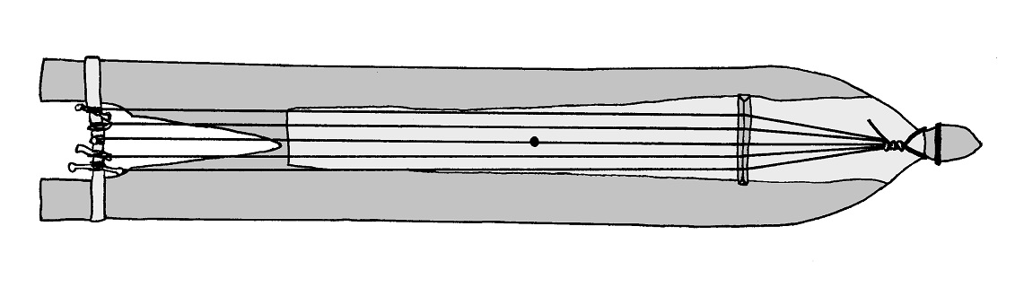 Khanty musical instrument "naresyuk", based on a sketch I did in the National Museum of Finland, Helsinki in 1972. Unfortunately this instrument is no longer on show.